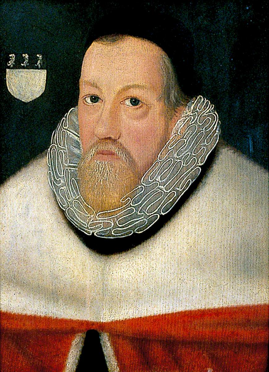 unknown artist; Sir Thomas Richardson (1569-1635); Norwich Civic Portrait Collection